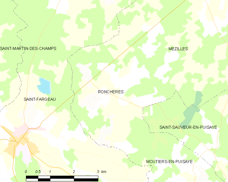 Map of French municipality Ronchères